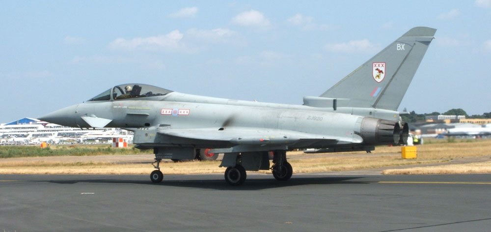 Eurofighter Typhoon (No 29 Squadron Typhoon F.2), Farnborough 2006.